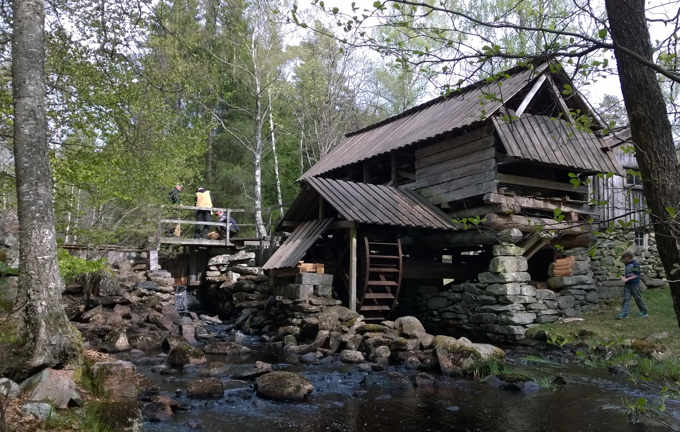 The Brunnsbacka sawmill